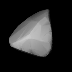 3D convex shape model of 1484 Postrema, computed using light curve inversion techniques. J. Hanuš, J. Ďurech, M. Brož, B. D. Warner (June 2011). "A study of asteroid pole-latitude distribution based on an extended set of shape models derived by the lightcurve inversion method". Astronomy and Astrophysics 530: A134. ISSN 0004-6361. arXiv